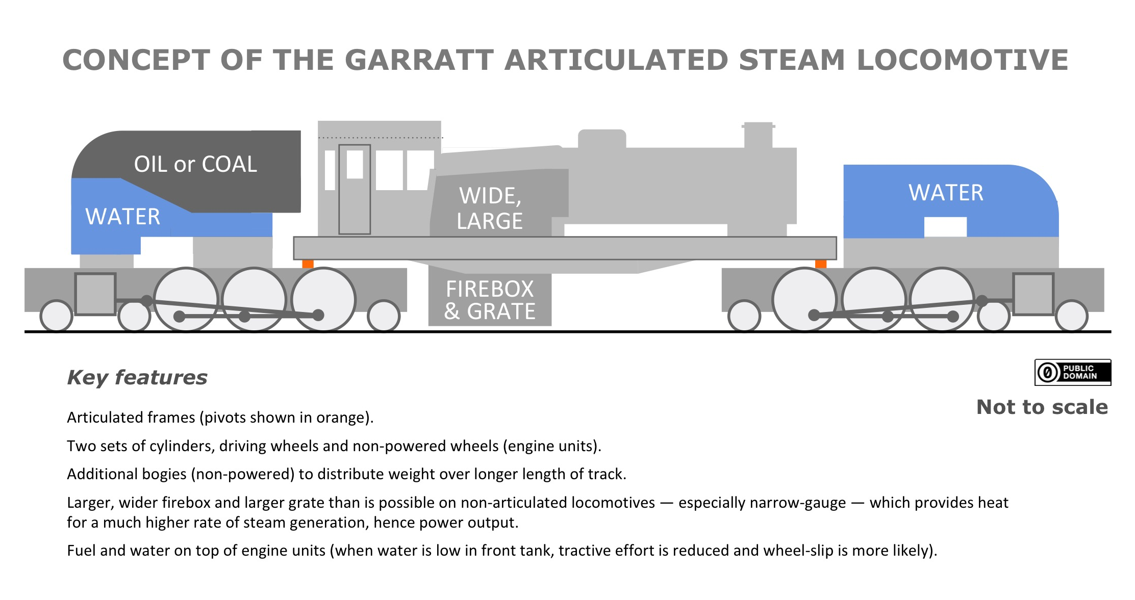 A simplified diagram of the key components of Garratt articulated steam locomotives